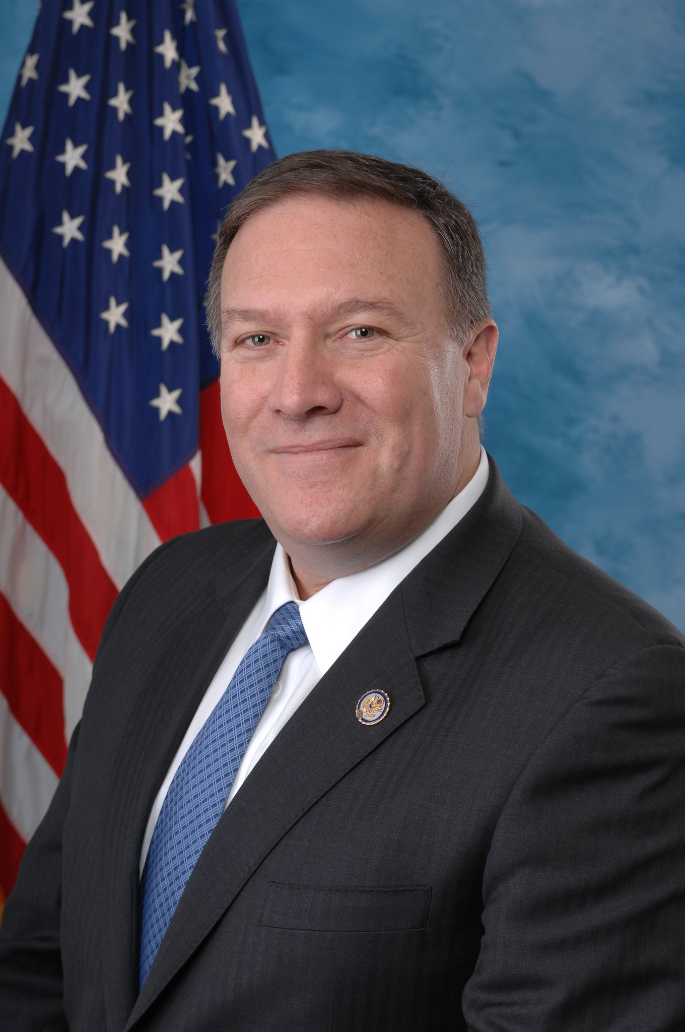 Mike Pompeo Official Portrait